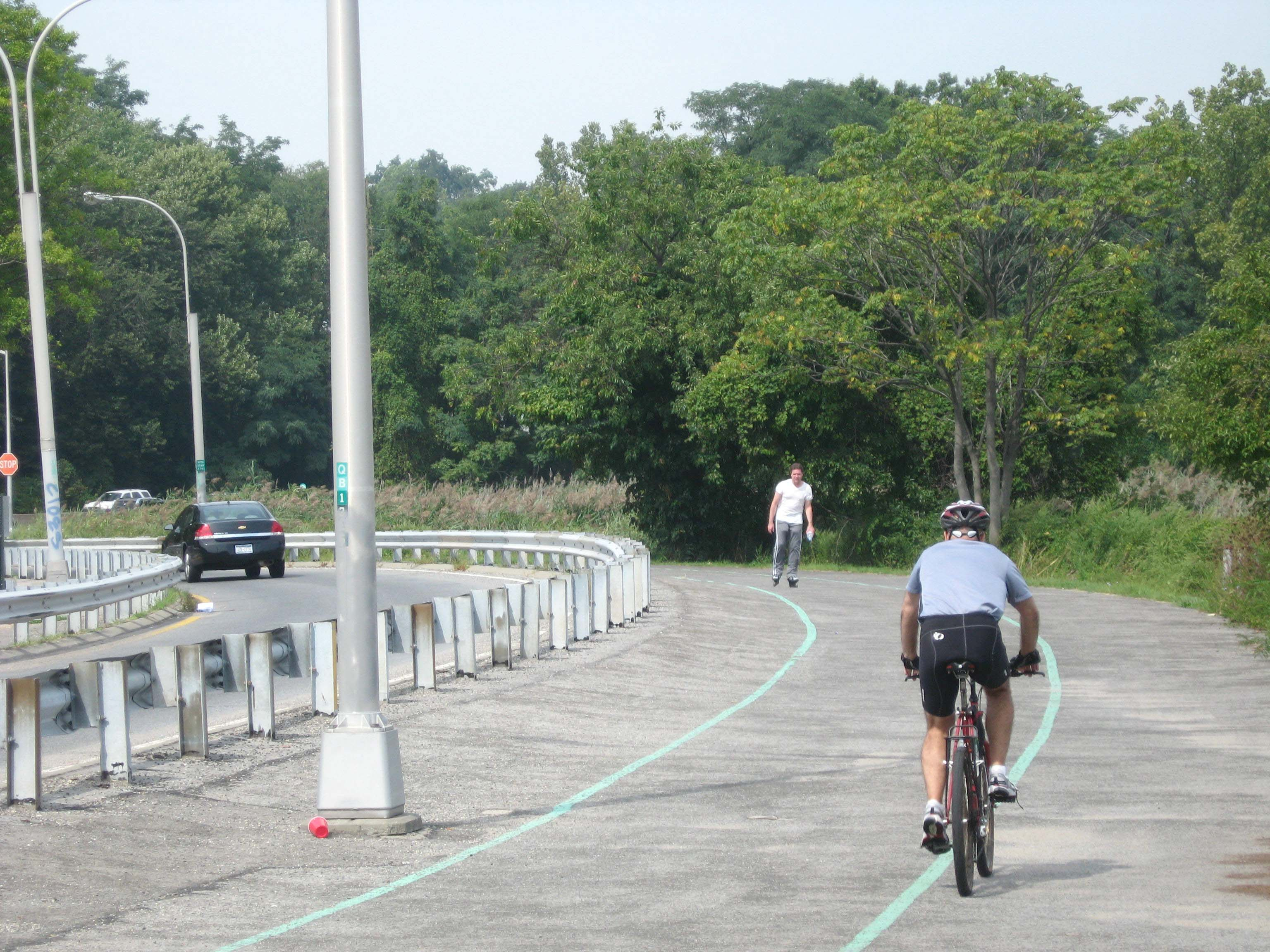 Looking northwest along Joe Michael's Mile on the left bank of the creek from Alley Pond into Little Neck Bay on a partly cloudy late morning